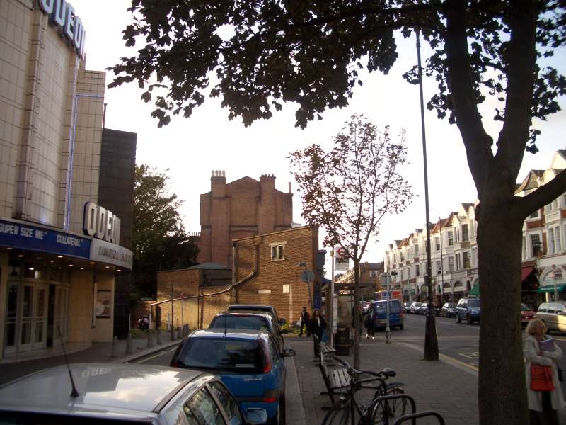 Looking North outside Muswell Hill Odeon.